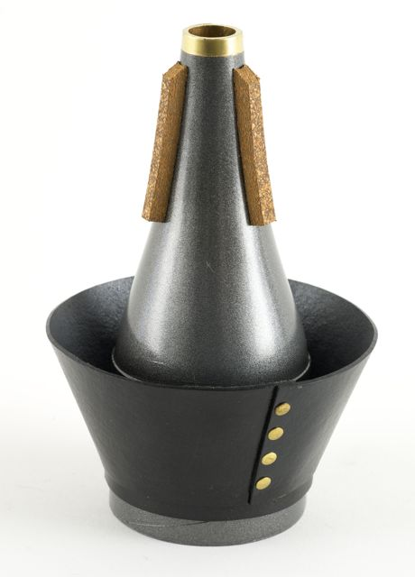 A Soulo SM5525 adjustable trumpet cup mute made by Michael Jarosz